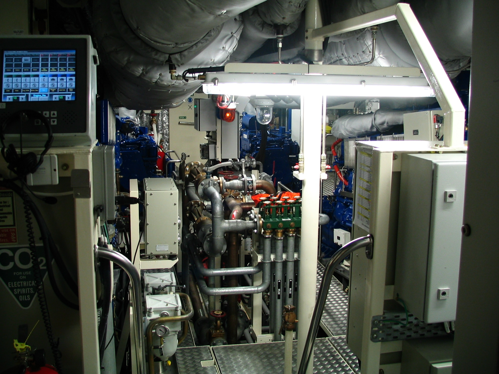 Engine room of HMNZS Hawea, in Dunedin, New Zealand.